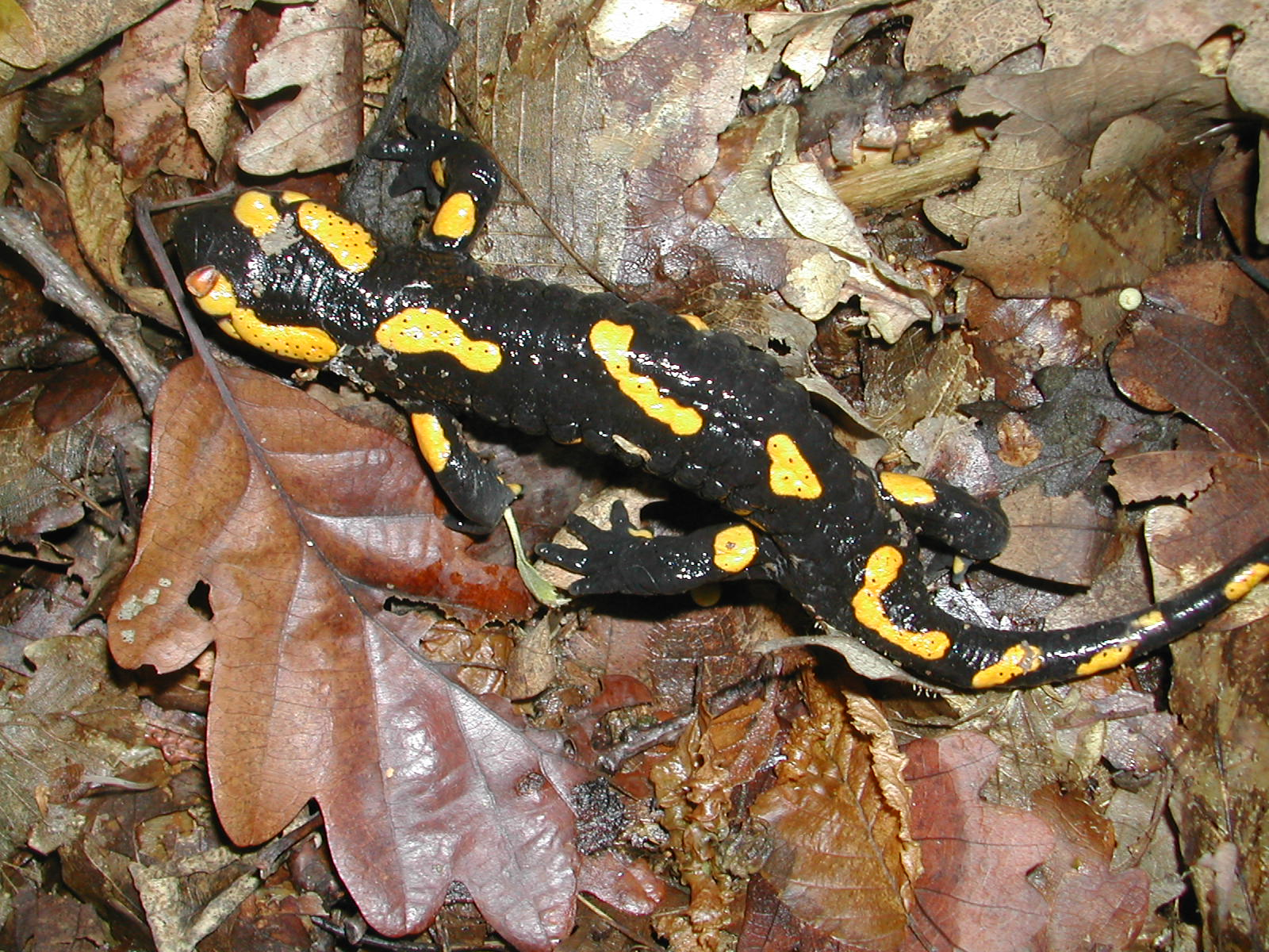 Fire Salamander in the Matra Mountains, Hungary